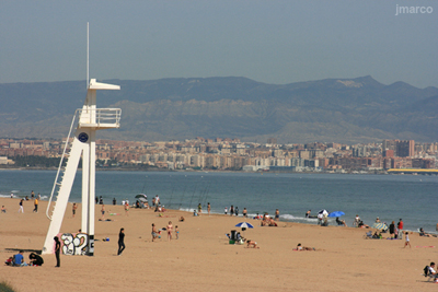 Beach of The Altet, in the Bay of Alicante.